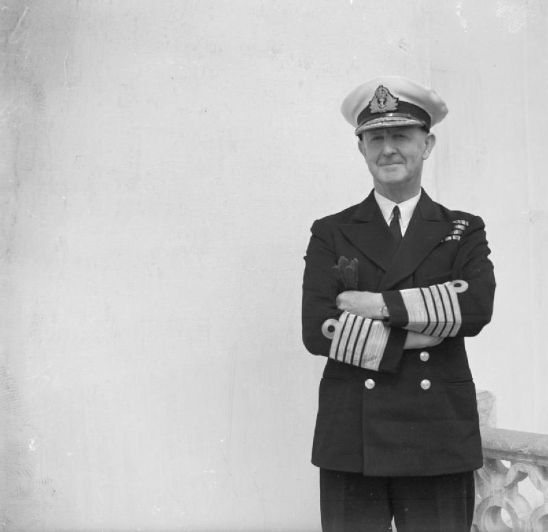 Career of Admiral Sir Andrew Cunningham A portrait of Admiral of the Fleet Sir Andrew Cunningham, Commander in Chief Mediterranean. Taken aboard HMS SIRIUS.